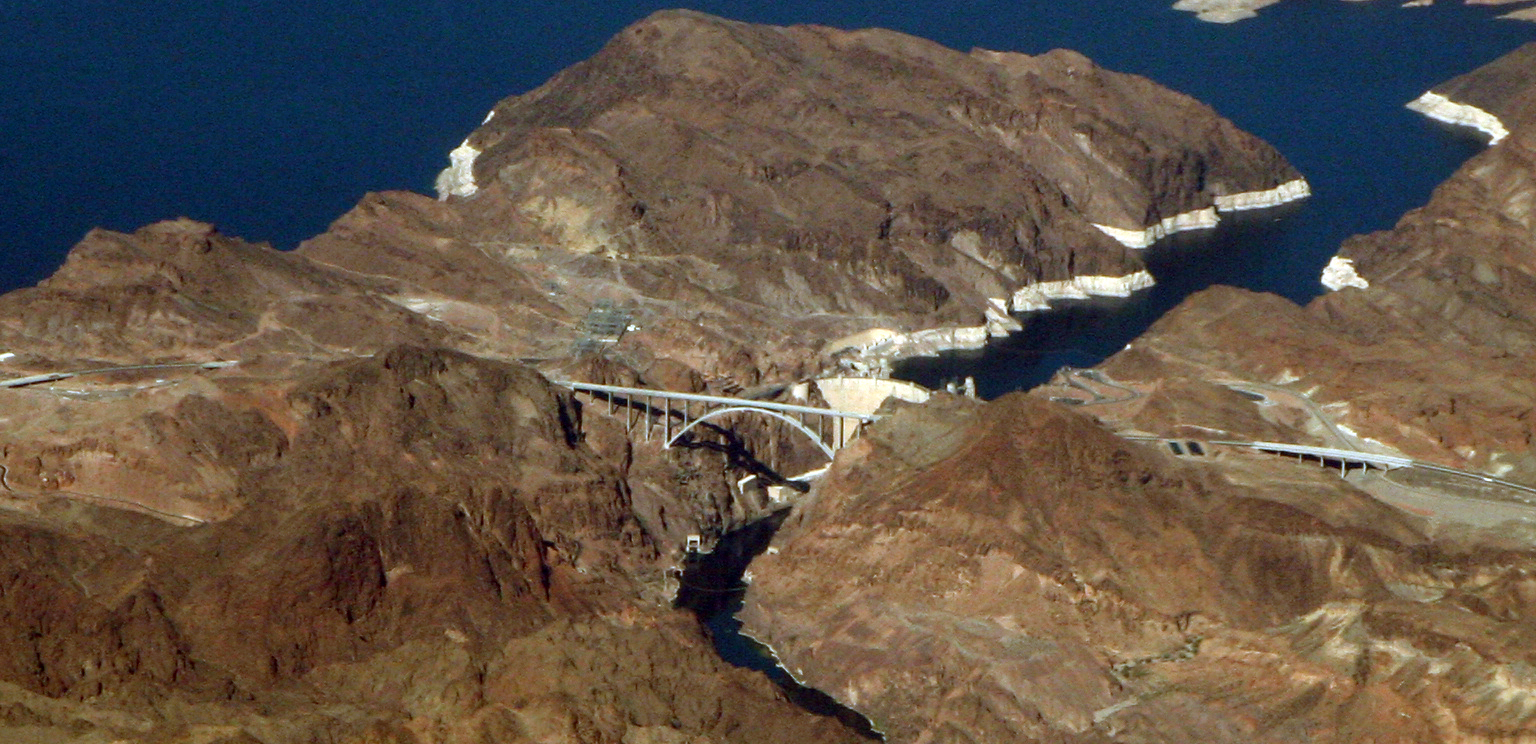 New bridge at Hoover Dam. Aerial by Doc Searls.